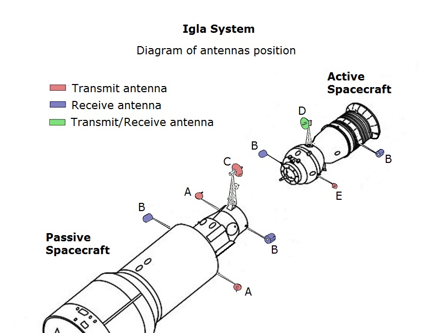 Igla docking system antennas.